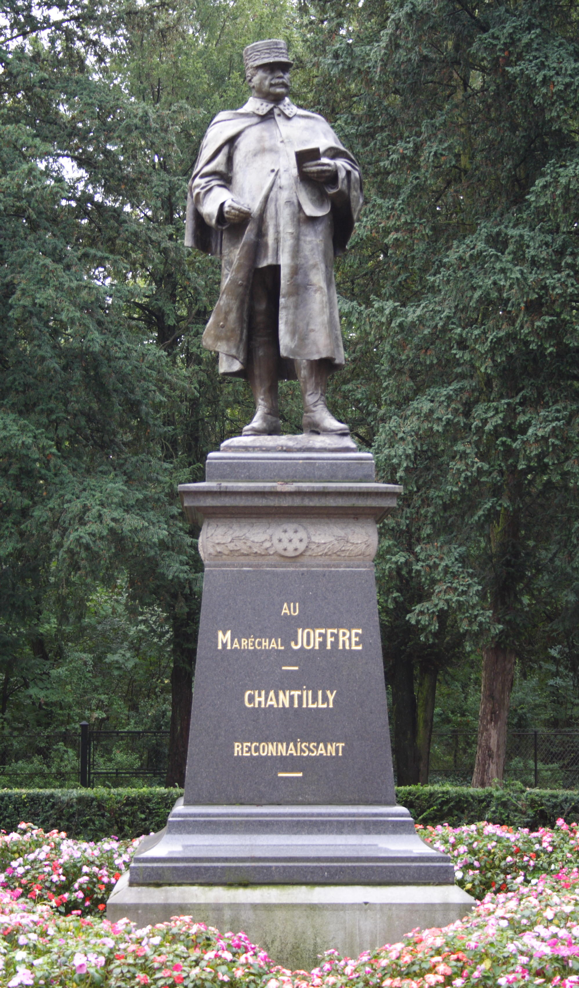 French Maréchal Joffre (Chantilly, France)